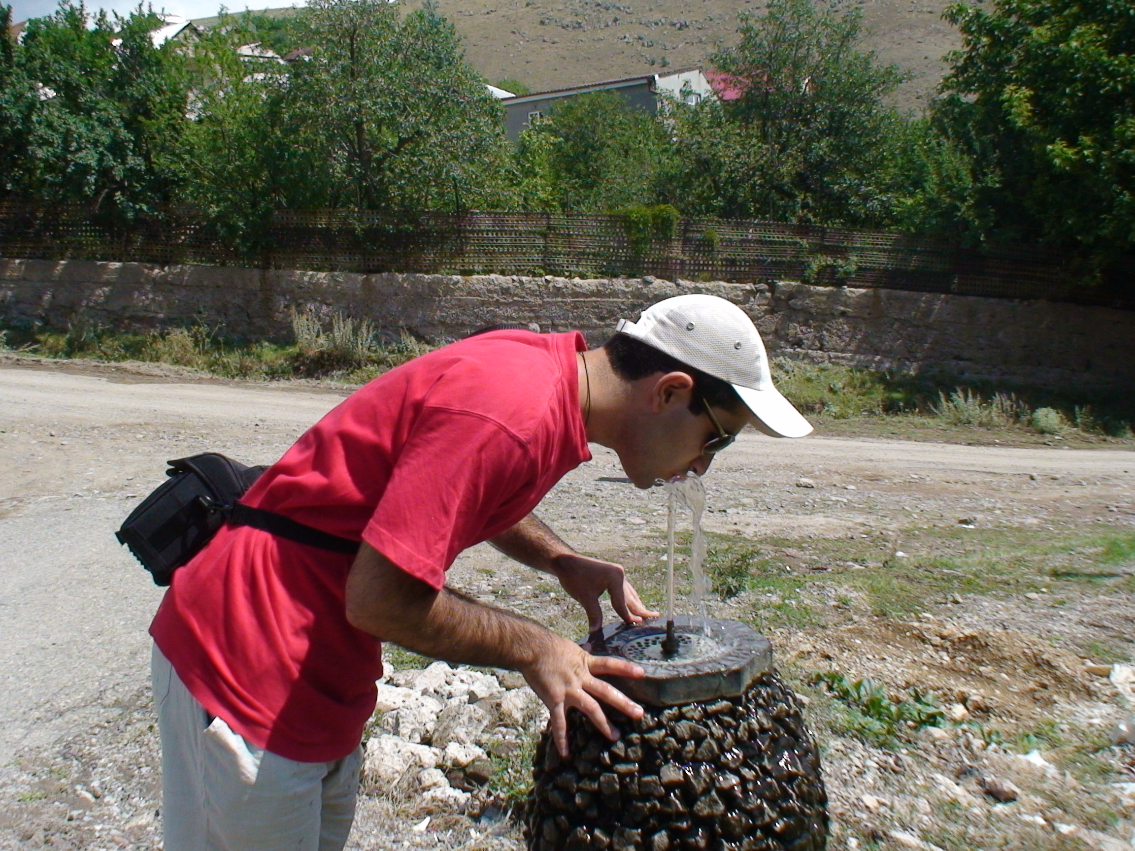 Pulpulak in Bjni